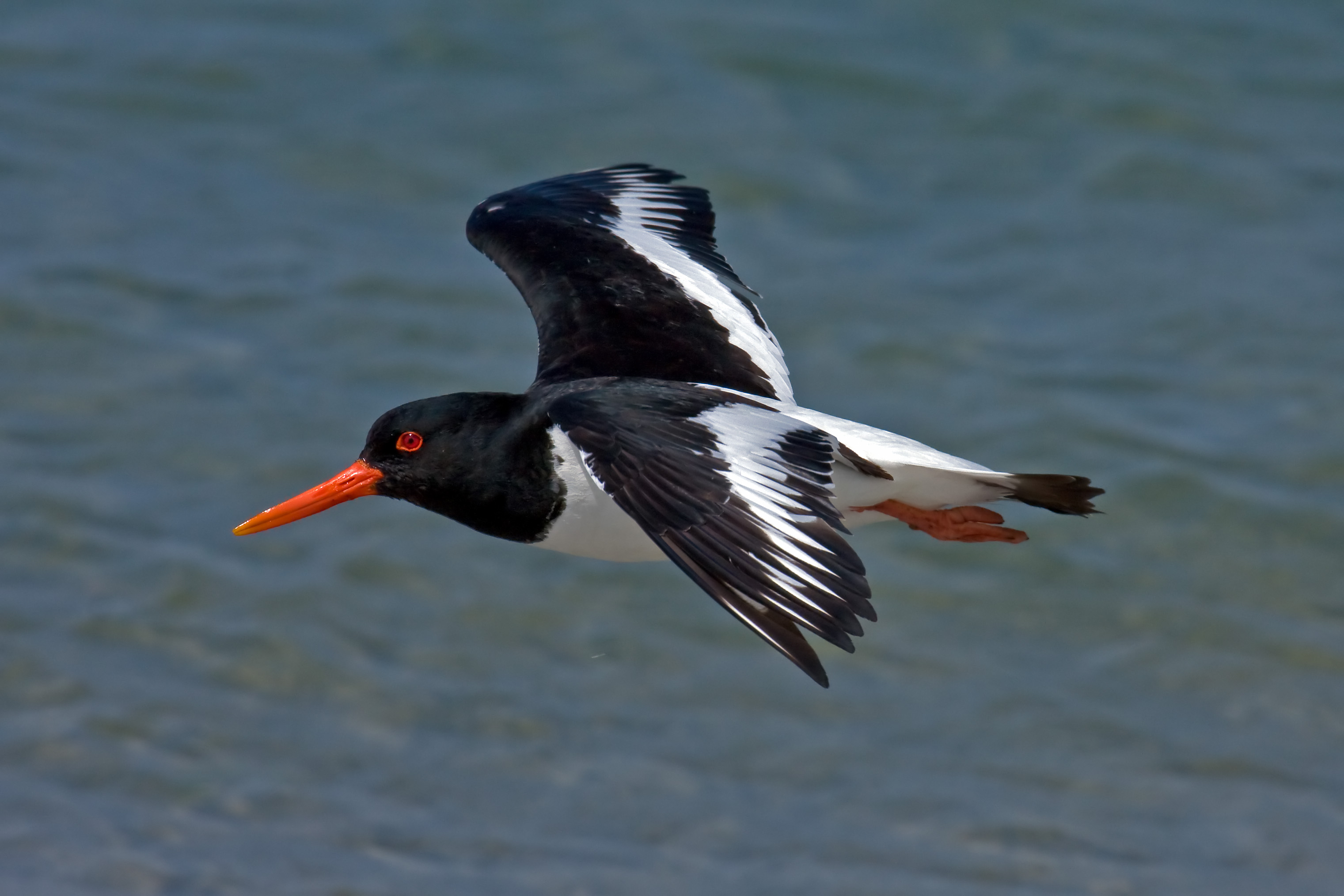 Eurasian Oystercatcher